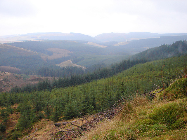 Hafren Forest A view from one of the highest areas of the forest towards Cwmbiga and beyond. The growth in the foreground will obscure this view in a few years time.